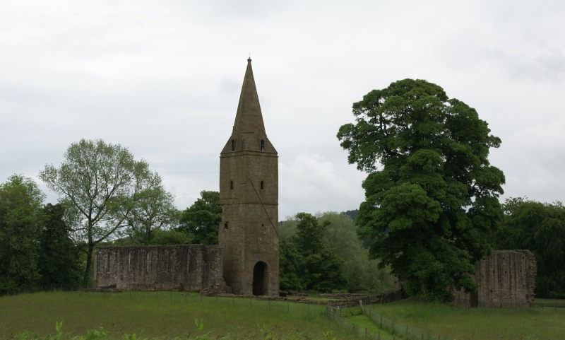 Restenneth Priory, Angus, Scotland.